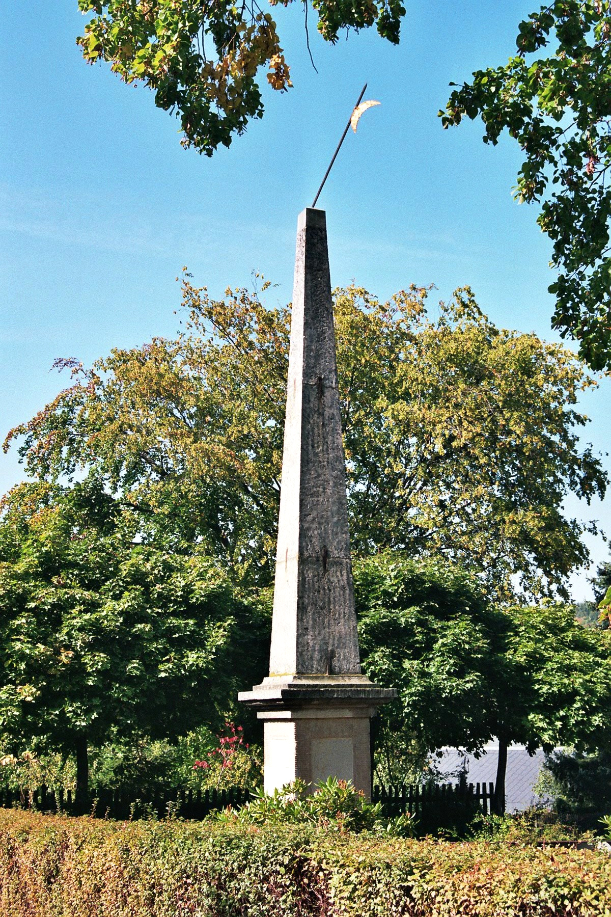 This image shows the princess-column in Berggießhübel in Saxony, Germany.